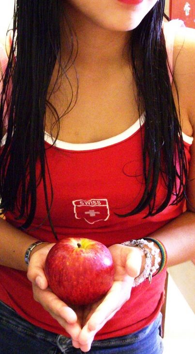 A girl imitating the Twilight's book cover